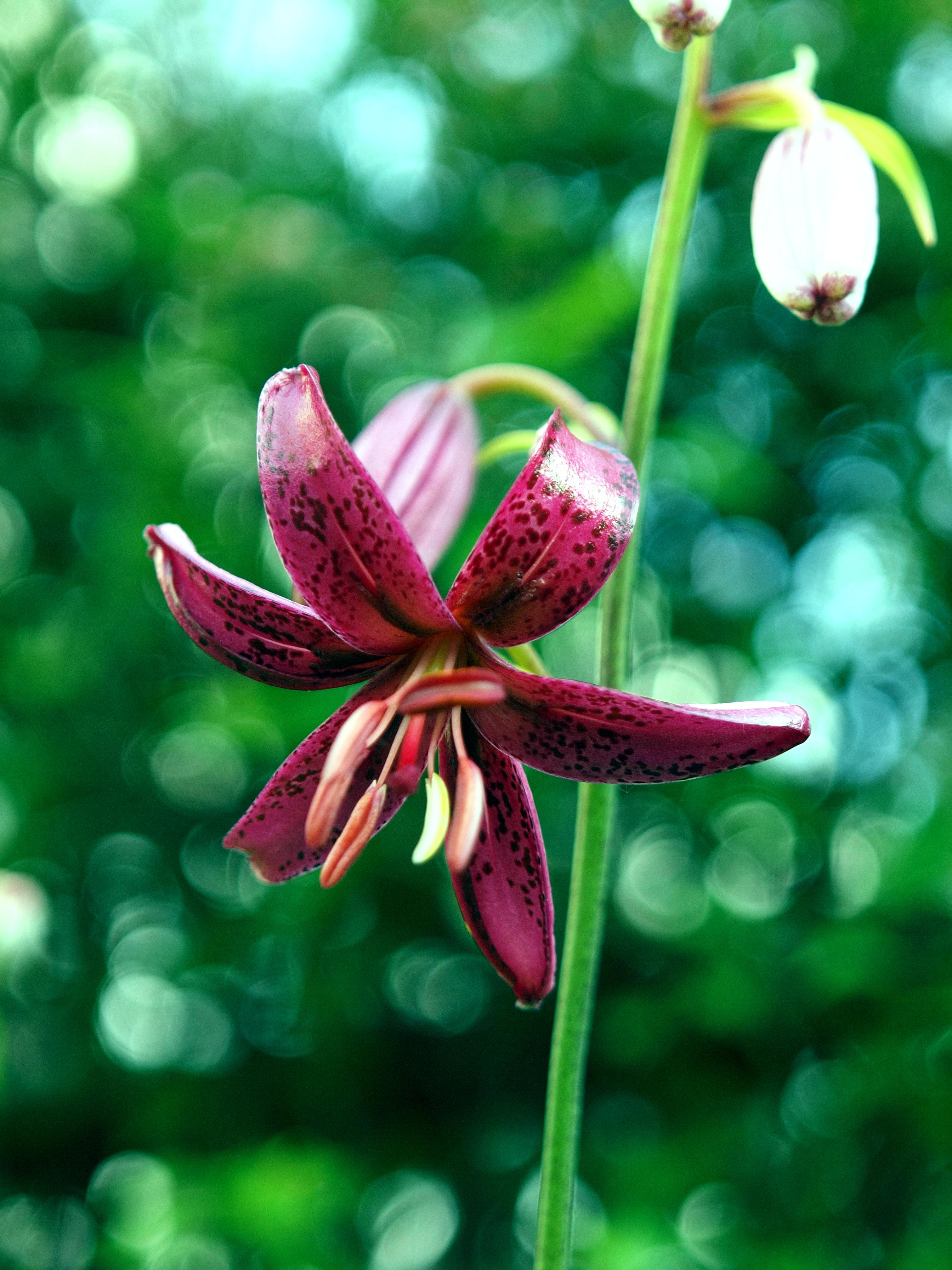 Lilium martagon sanguineo-purpureum Beck ex situ coll Cikovac Bijela gora 2015